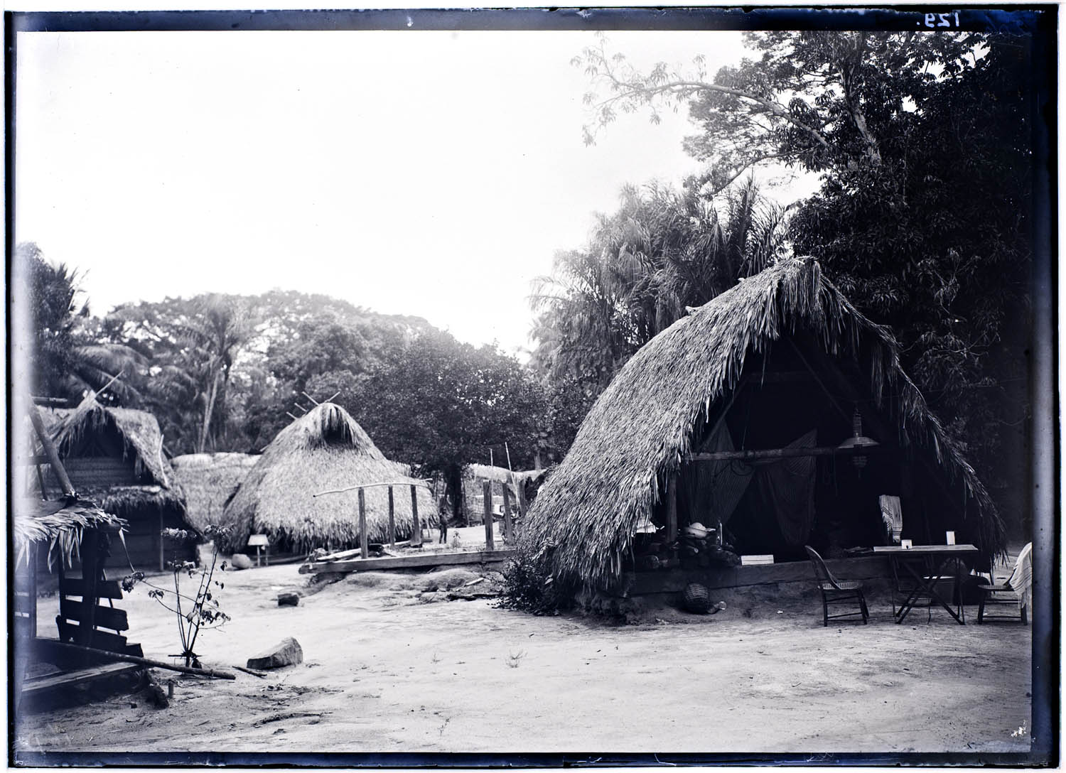 Glass negative plate of the of the Opu (Upstream Tapanahony) village of Fisiti (spelt as "Afivisiti"), inhabited primarily by the Dyu clan or lo of the Ndyuka Maroons, and taken during the Tapanahony expedition of 1904. In the original description the identification of the village as Fisiti is only considered likely (Dutch: waarschijnlijk), but since the description on the print made from this negative in the album RV-A103-1 clearly identifies this village as Fisiti, it can be assumed with confidence that the village depicted is indeed Fisiti.